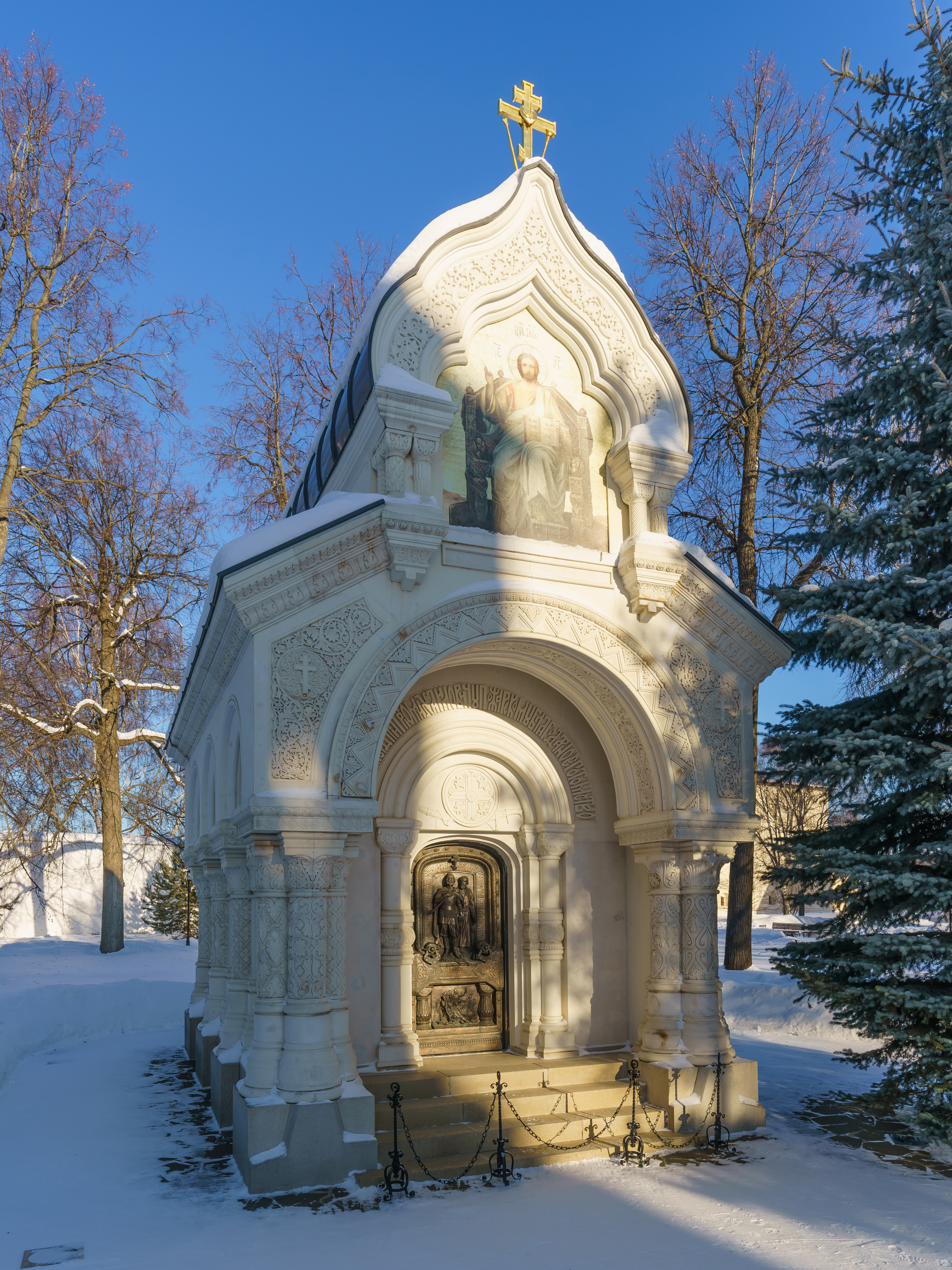 Tomb of Prince Dmitry Pozharsky in Spaso-Evfimiev Monastery in Suzdal, Russia